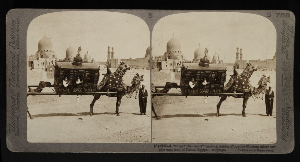 Two adorned camels carrying a chest in front of tombs